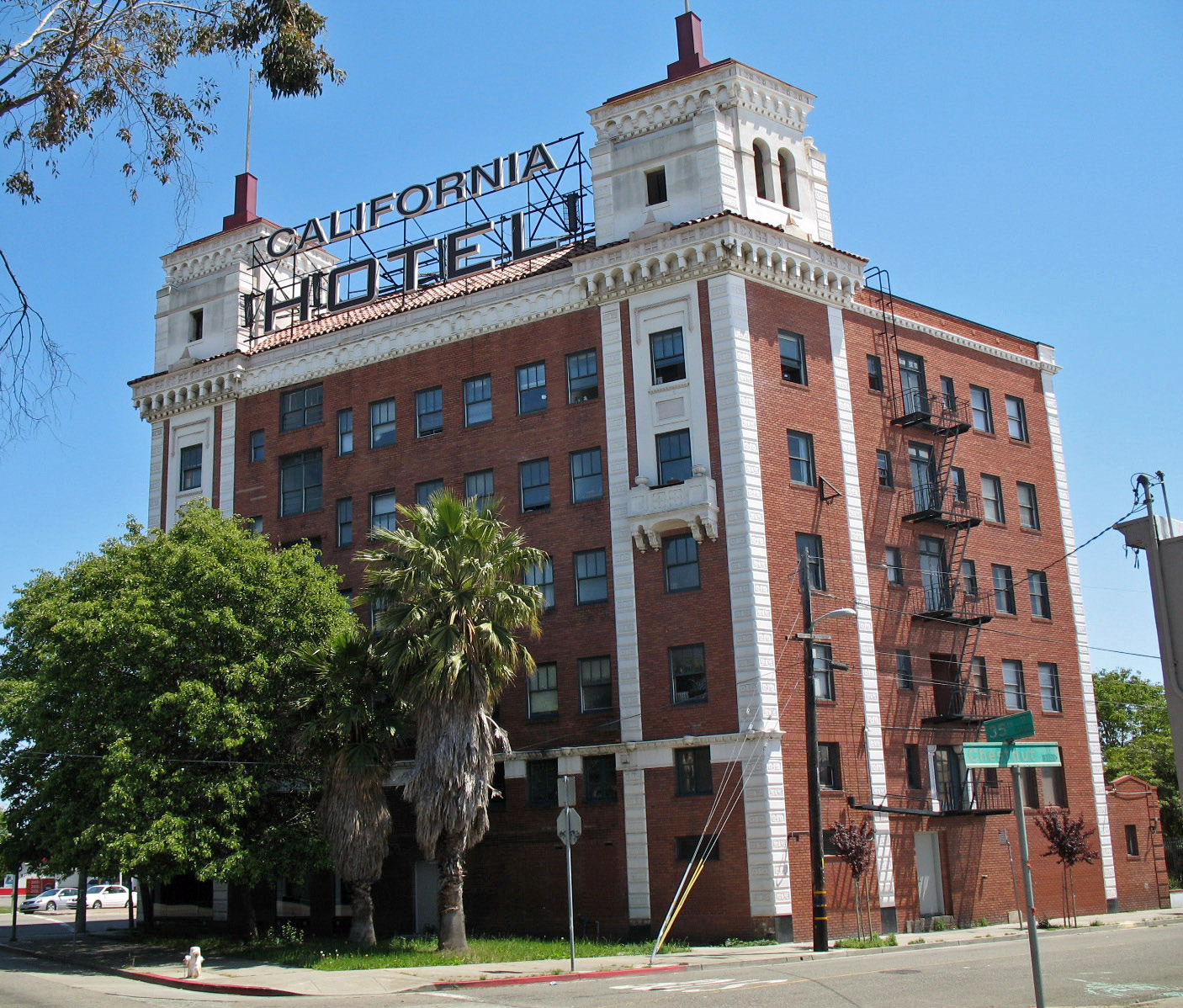 National Register of Historic Places listings in Alameda County, California. California Hotel, 3443-3501 San Pablo Ave, Oakland, CA. Photographed 2009-05-17 from the north side of 35 St. near the intersection with Chestnut St.